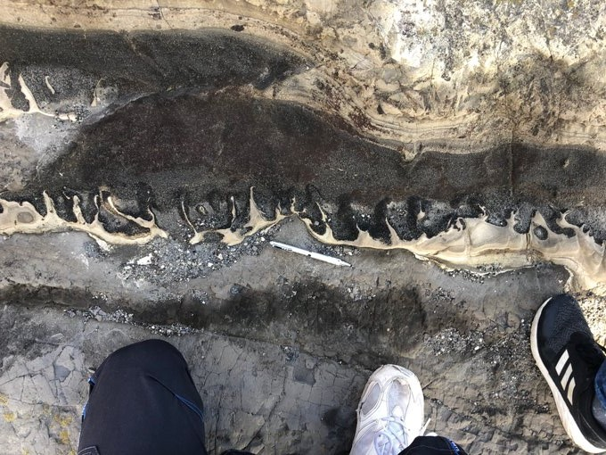 A flame structure found in the Misaki Formation in Jogashima, Miura City, Kanagawa Prefecture. Taken from the top side during deposition.